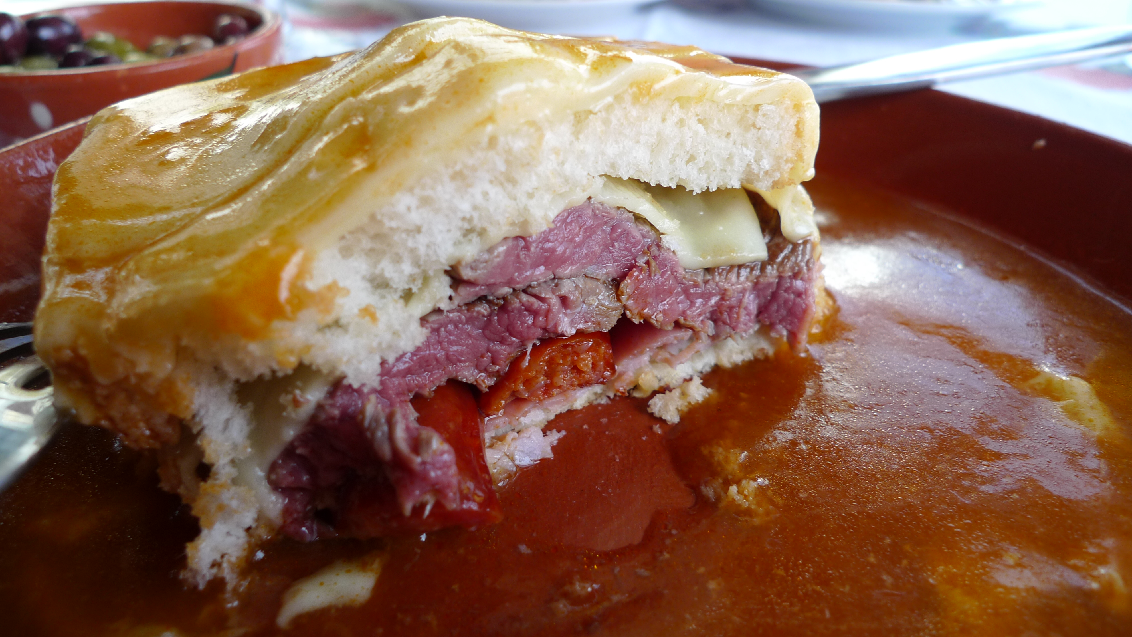 This turned out to be the only francesinha sandwich I had in Porto (at some waterfront "tapas" place in Gaia), but probably a typical example of the genre. White bread sandwich stuffed with meat, covered in cheese, melted and with a salsa.